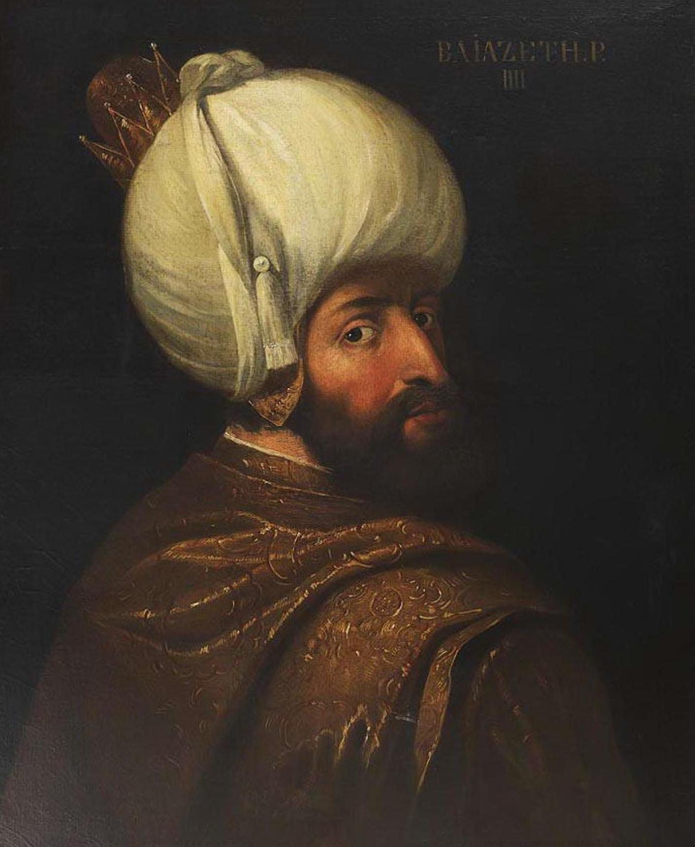 The portrait painted title appears to say "Baiazeth. P. IIII" Compare identification to